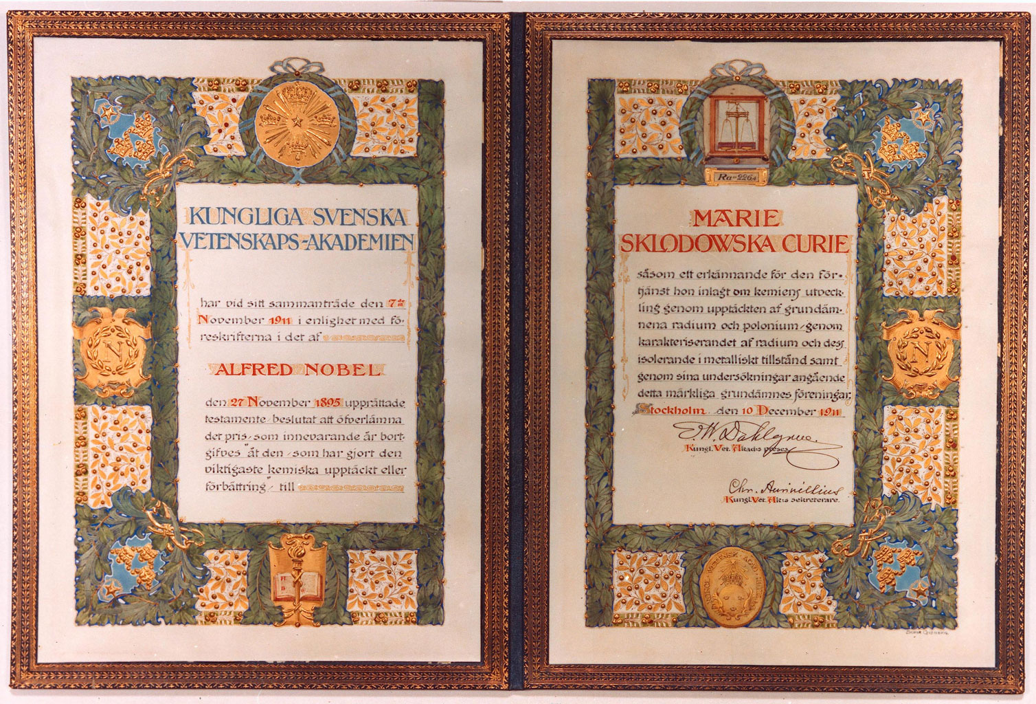 Marie Skłodowska-Curie Nobel Prize Diploma